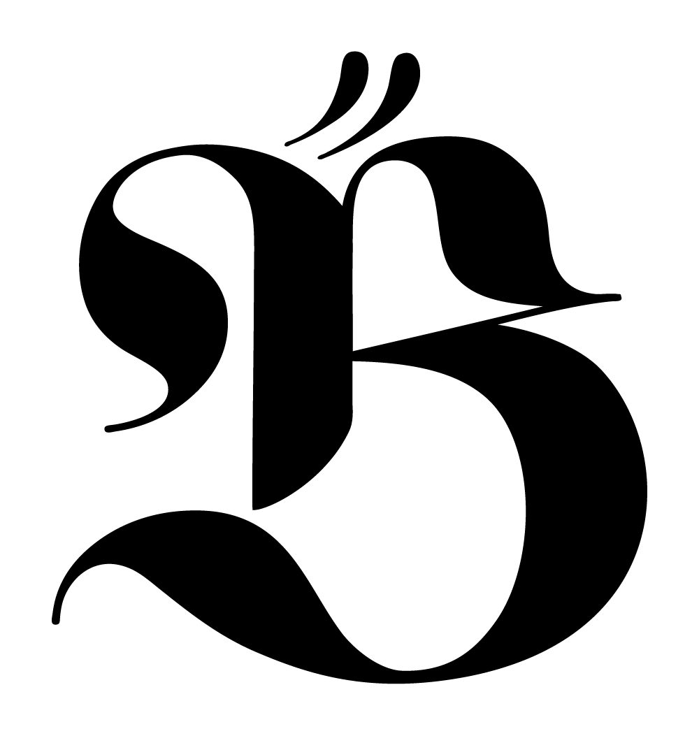 Beyoncé Logo